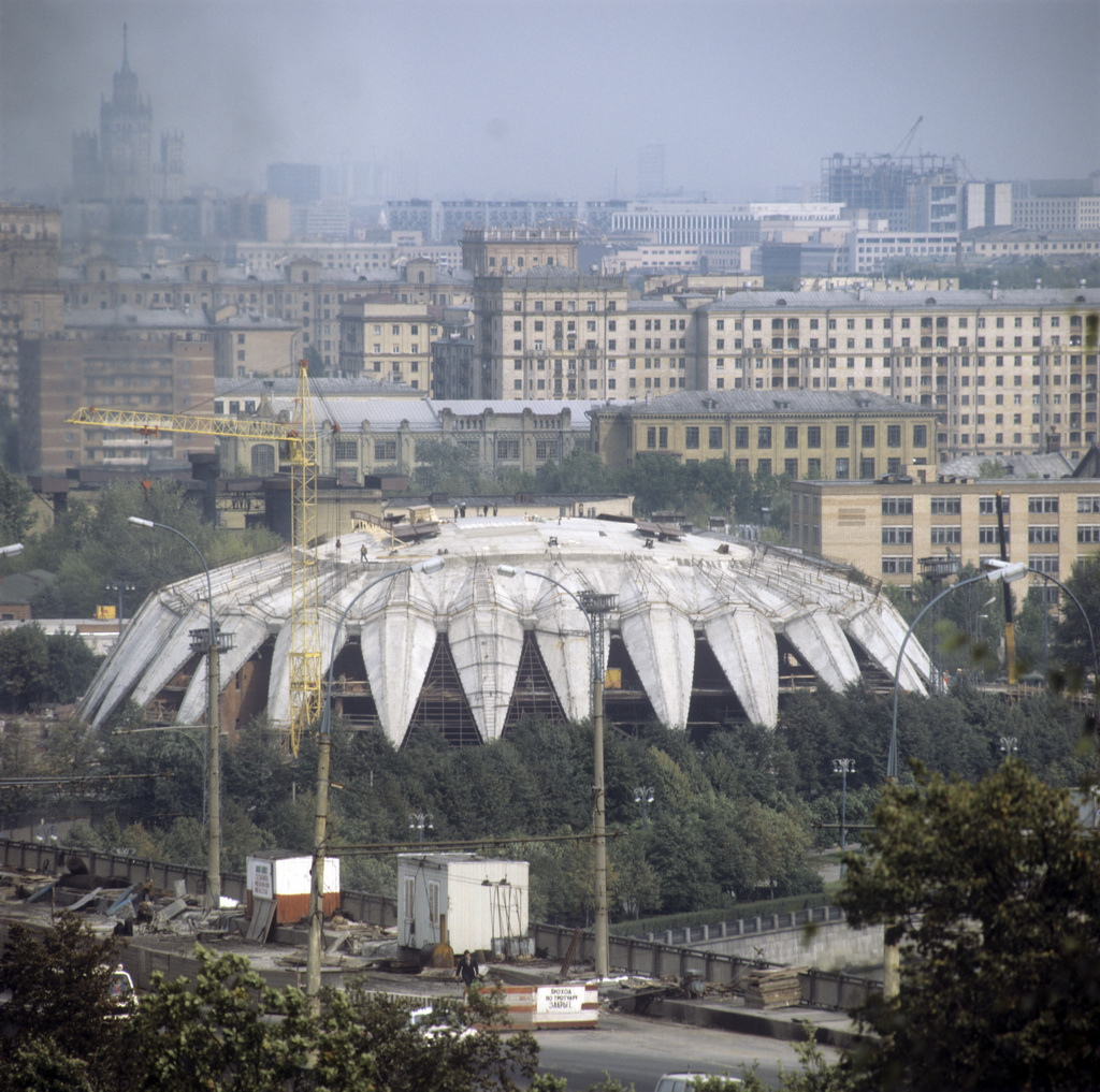 “"Friendship" universal gymnasium”. The "Friendship" universal gymnasium was built in Luzhniki for the 22nd Olympic Games of 1980. Architects I. Rozhin, Yu. Bolshakov, V. Tarasevich.